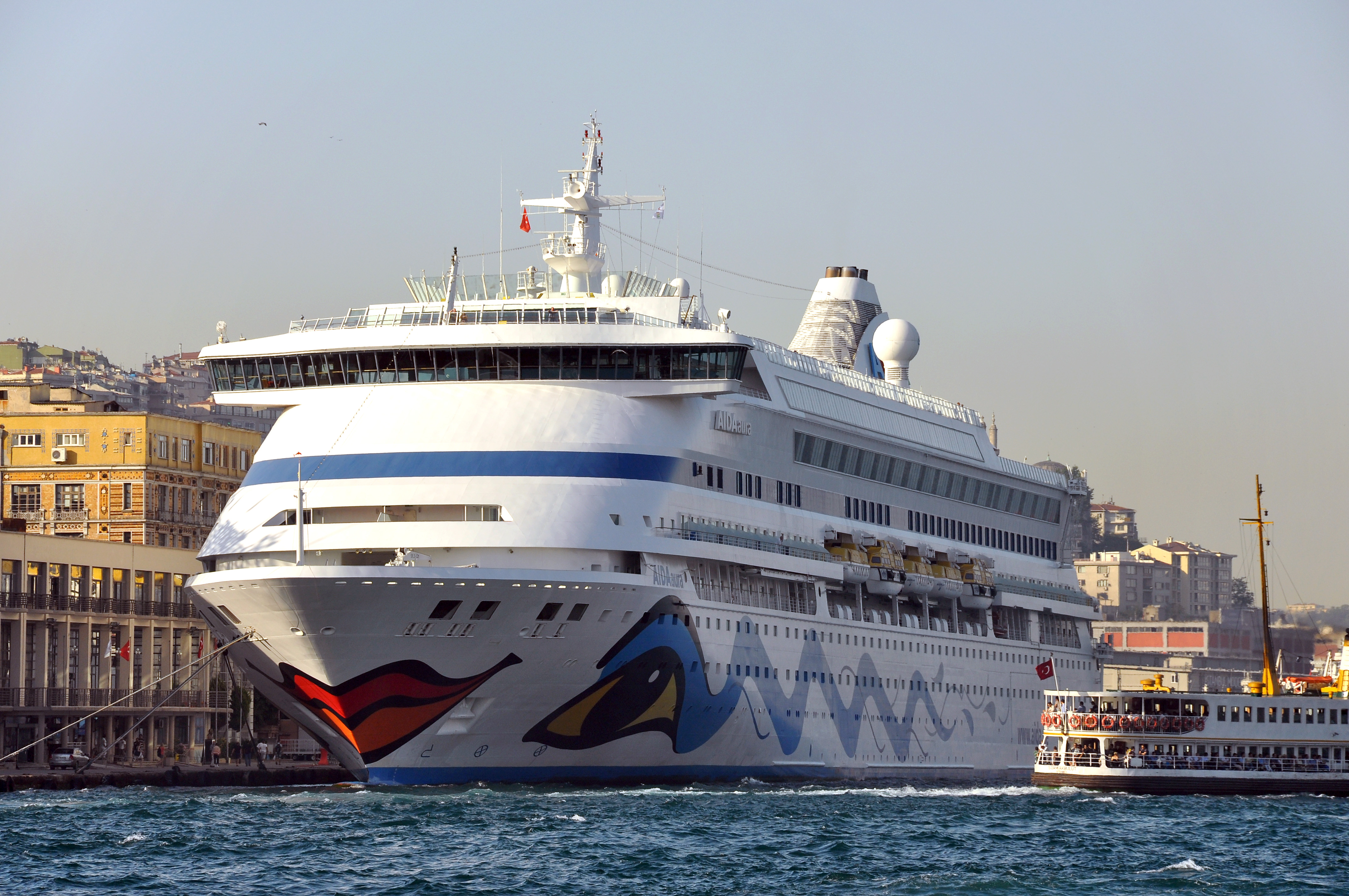 Cruise ship AIDAaura in port of Istanbul, Turkey.